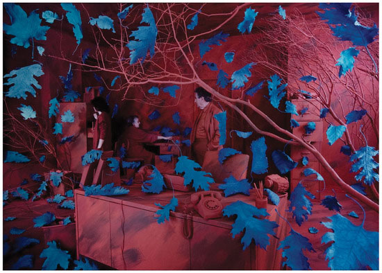 The book about Sandy Skoglund, by Morton was titled "Reality Under Siege".